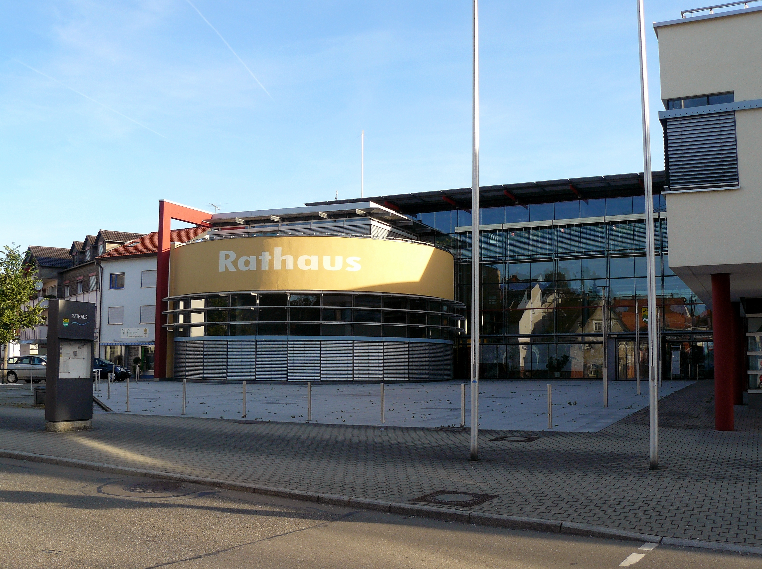 Town hall in Rudersberg, Germany